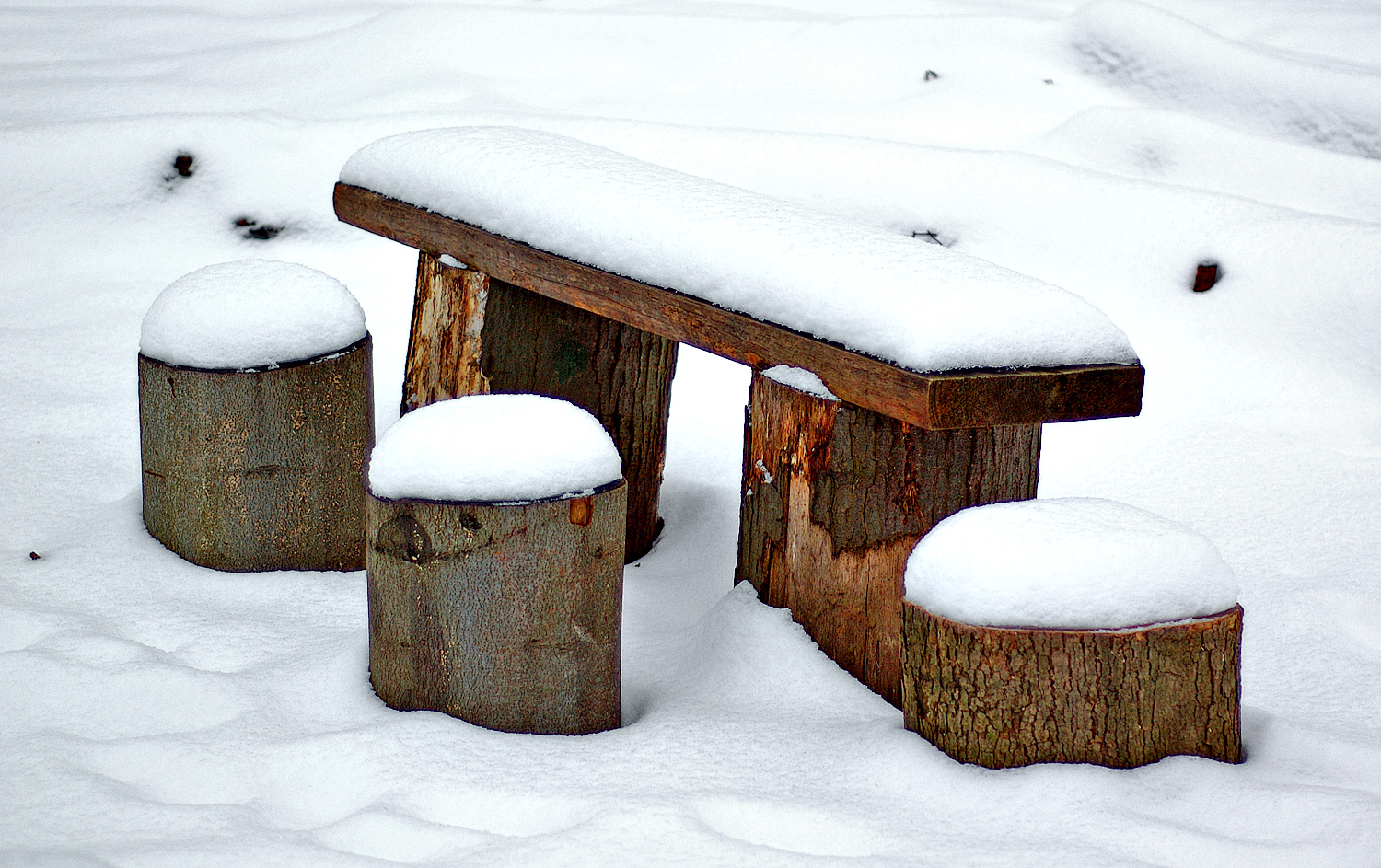 This image shows a snow covered park bench.